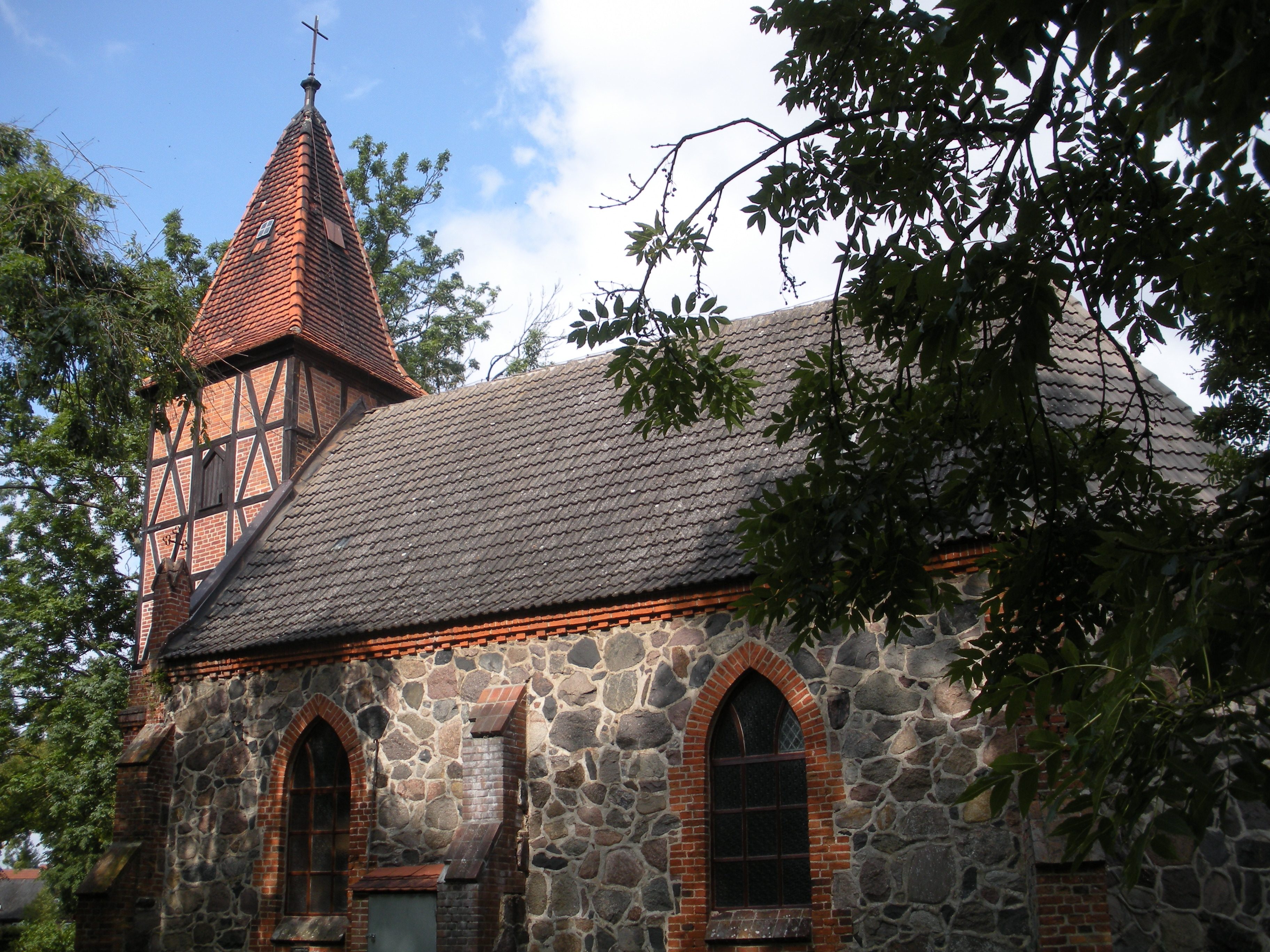 Protestant Church in Penzlin-Alt Rehse